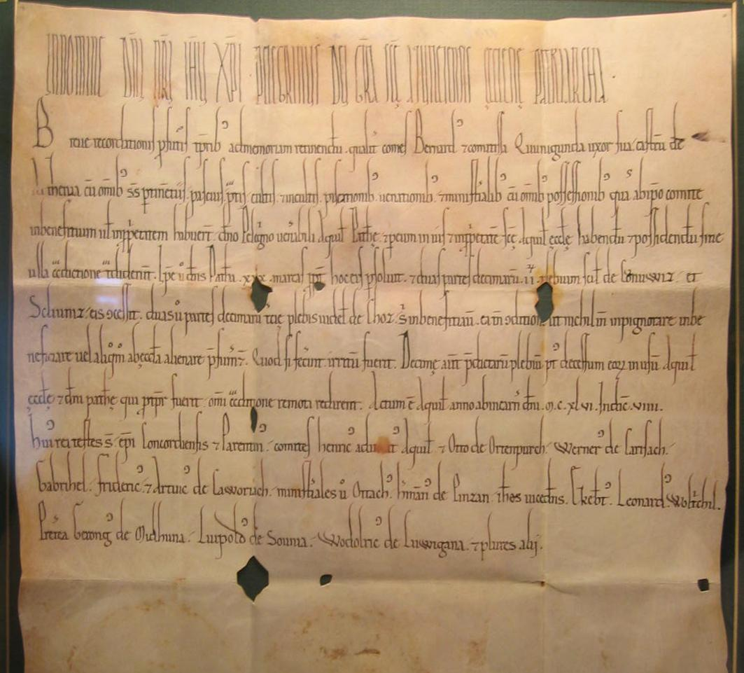 Document with the first known written Slavic name of the city of Ljubljana (Luwigana). Original was issued by Pilgrim I (Pelegrinus), Patriarch of Aquileia in 1146, explaining how the patriarchy became owner of the castle of Artegna (Friul). Document states that among witnesses "Wodolricus de Luwigana" was present. photo: Ziga 18:22, 22 October 2006 (UTC)